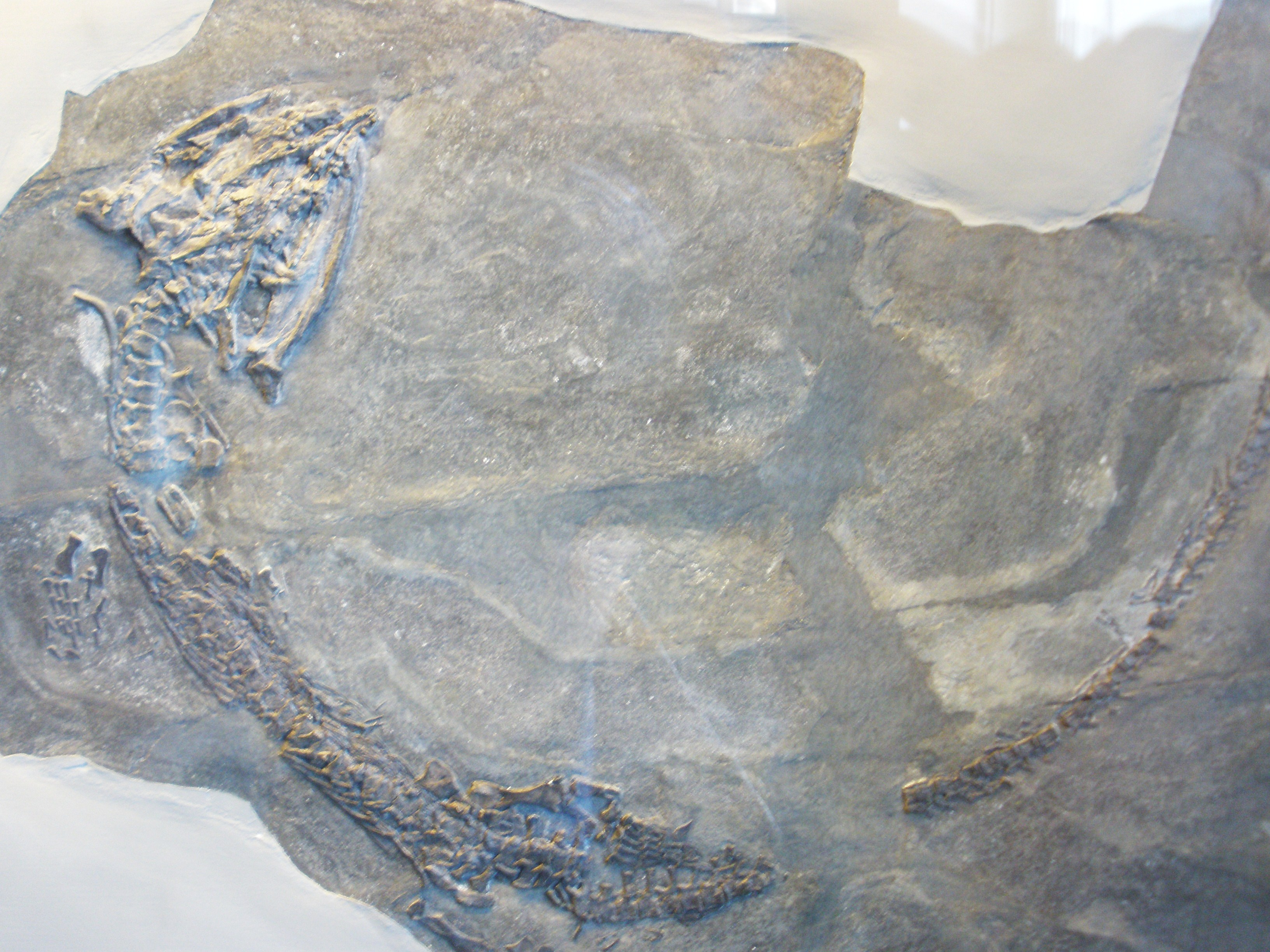 fossil Clarazia